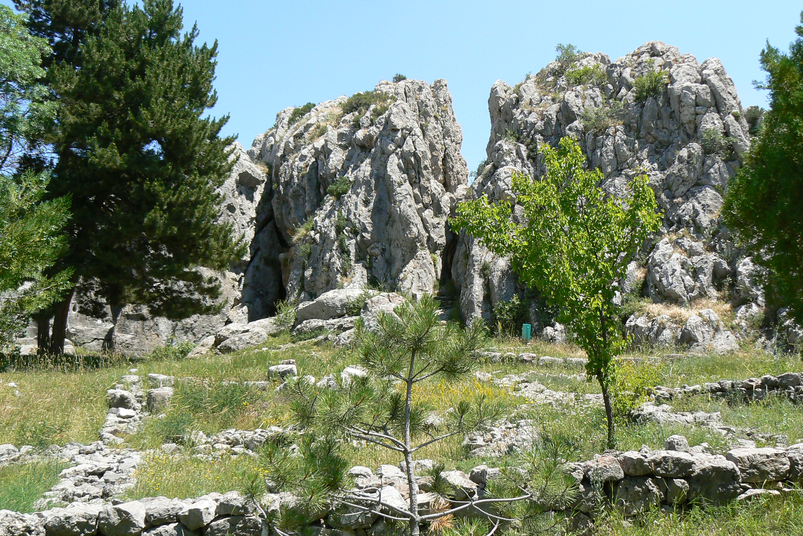 Entrace of the hittite rock sanctuary, Yazilikaya, Anatoloa, Turkey